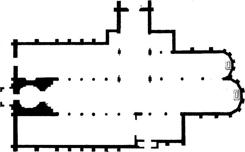 Oude Kerk, Delft, plan.